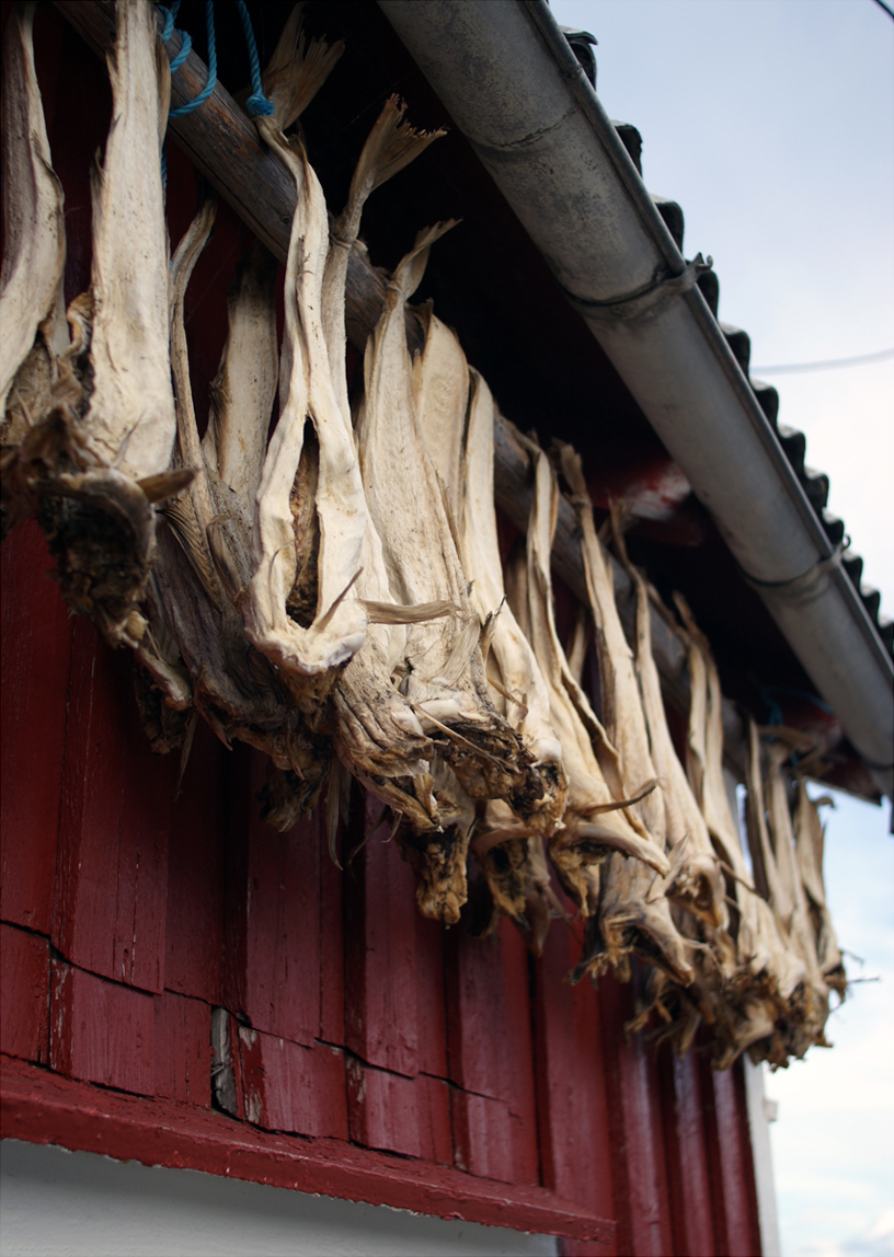 Skrei (Cod) Lofoten Norge Norway